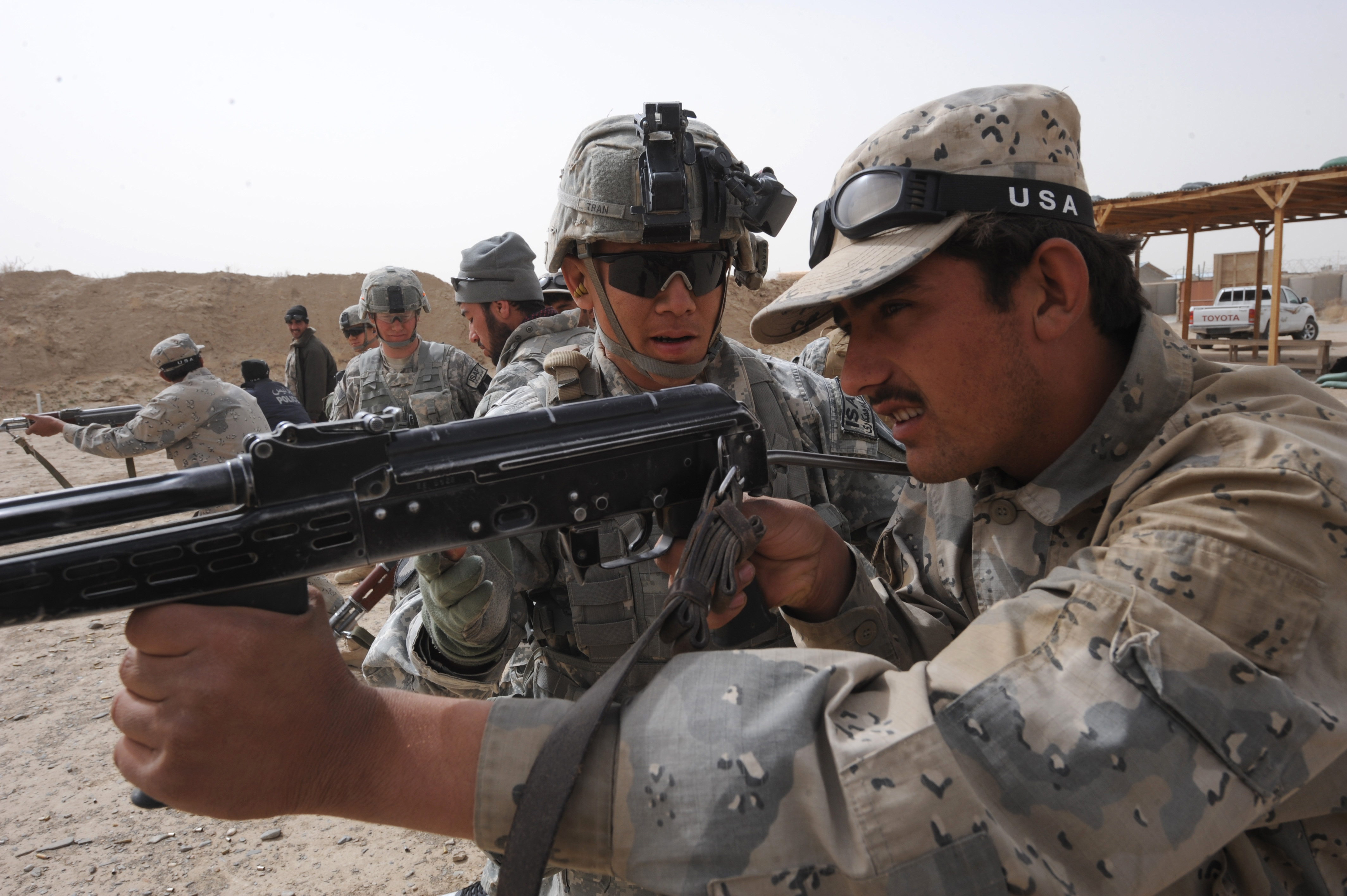 U.S. Army Sgt. Curtis Webb, with Bear Troop, 8th Squadron, 1st Cavalry Regiment, conducts basic marksmanship refresher training with an Afghan Border Policeman at Forward Operating Base Spin Boldak, Afghanistan, on Feb. 28, 2010.